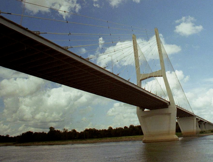 The Greenville Bridge is a cable-stayed bridge crossing the Mississippi River, that carries US 82 and US 278, between Lake Village, Arkansas and Greenville, Mississippi Original description:New Cable Stayed bridge between Greenville, Mississippi and Lake Village, Arkansas. Taken with an Olympus OM2s with 18mm lens.